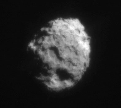 from craters